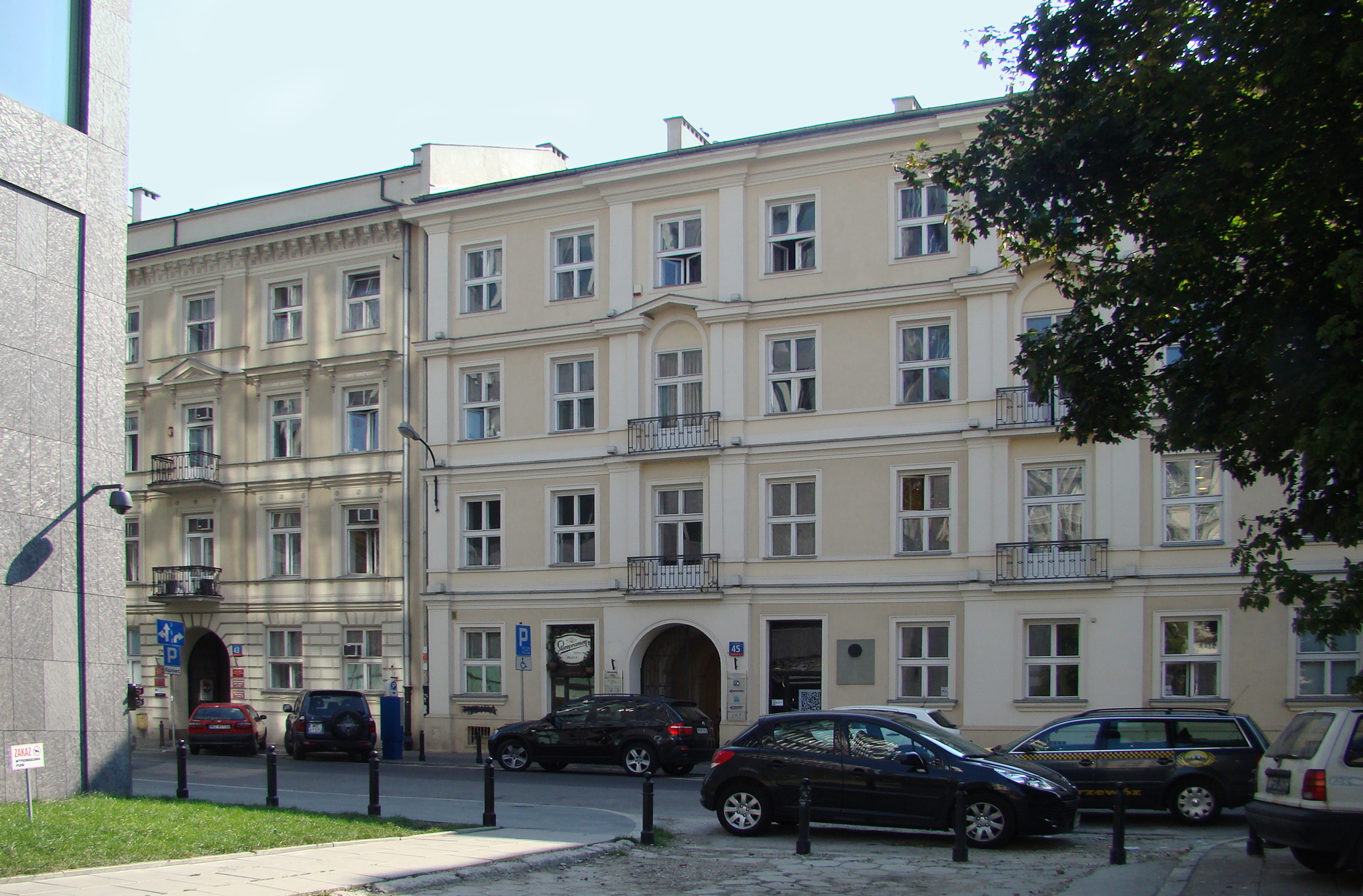 45, Żurawia St., Warsaw